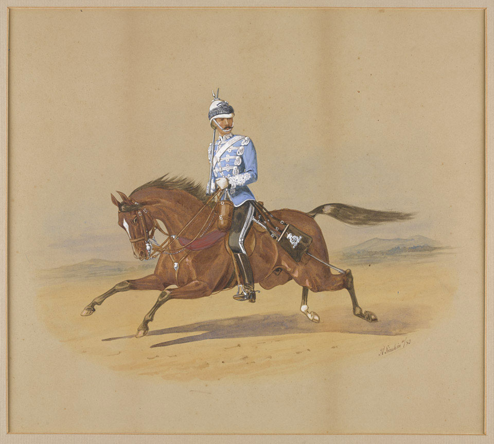 Lieutenant Gervase Francis Newport Tinley (1857-1918), of 1st Bombay Light Cavalry, a lancer, watercolour by Richard Simkin, 1883.